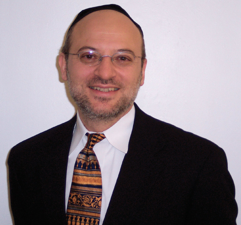 Rabbi Johnathan Rietti